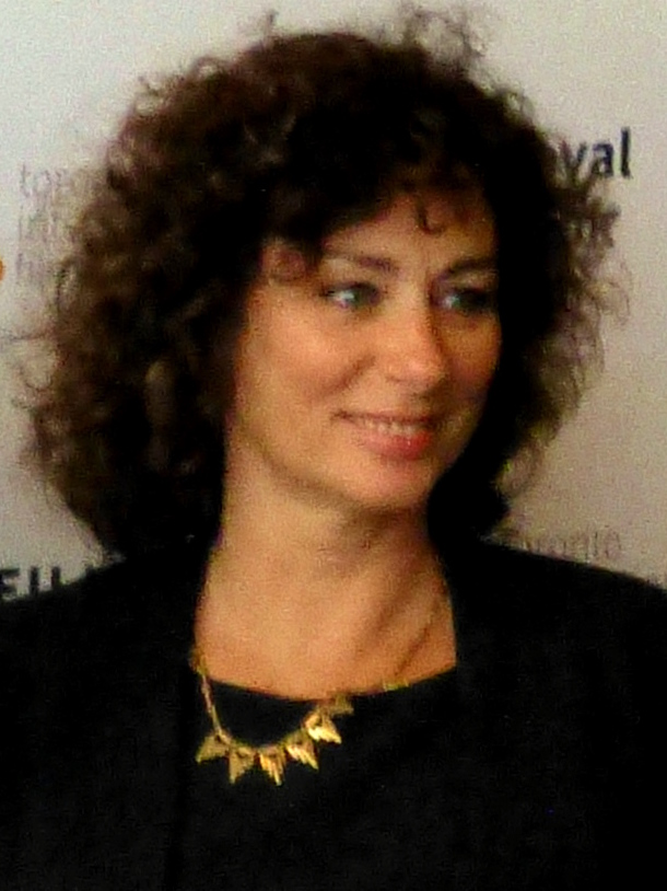 Isabelle Candelier at the premiere of Gemma Bovary, 2014 Toronto Film Festival